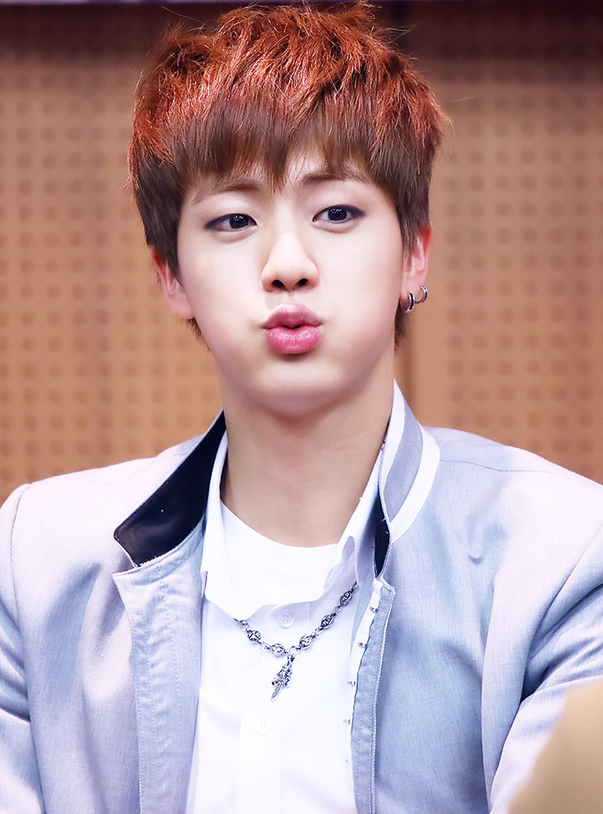 Kim Seok-jin at a fanmeet in Ilsan, on March 1, 2014.